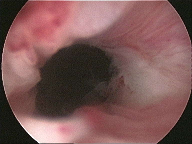 Uterine cervix